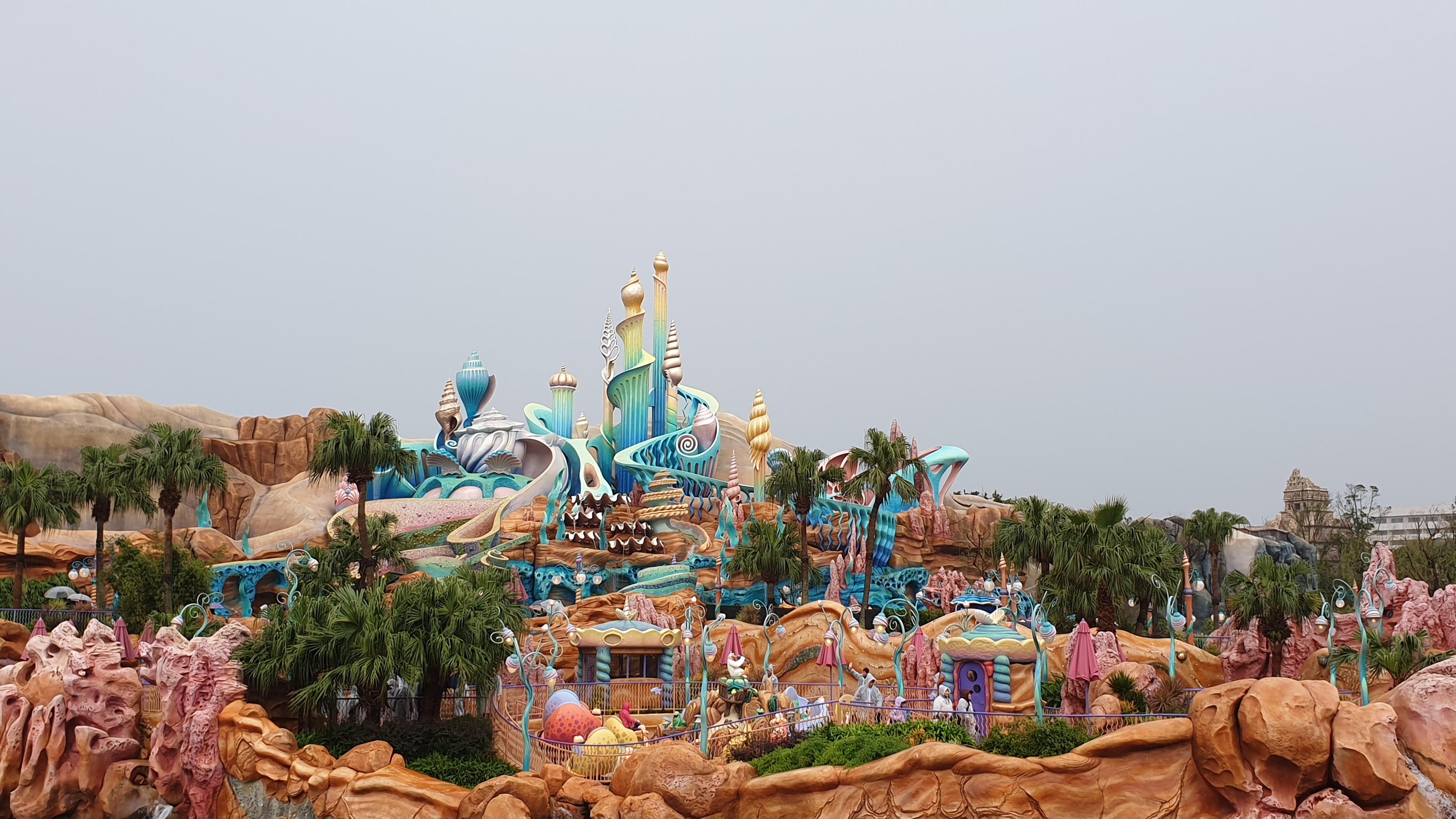 Tokyo DisneySea Mermaid Lagoon Exterior Dec 2019